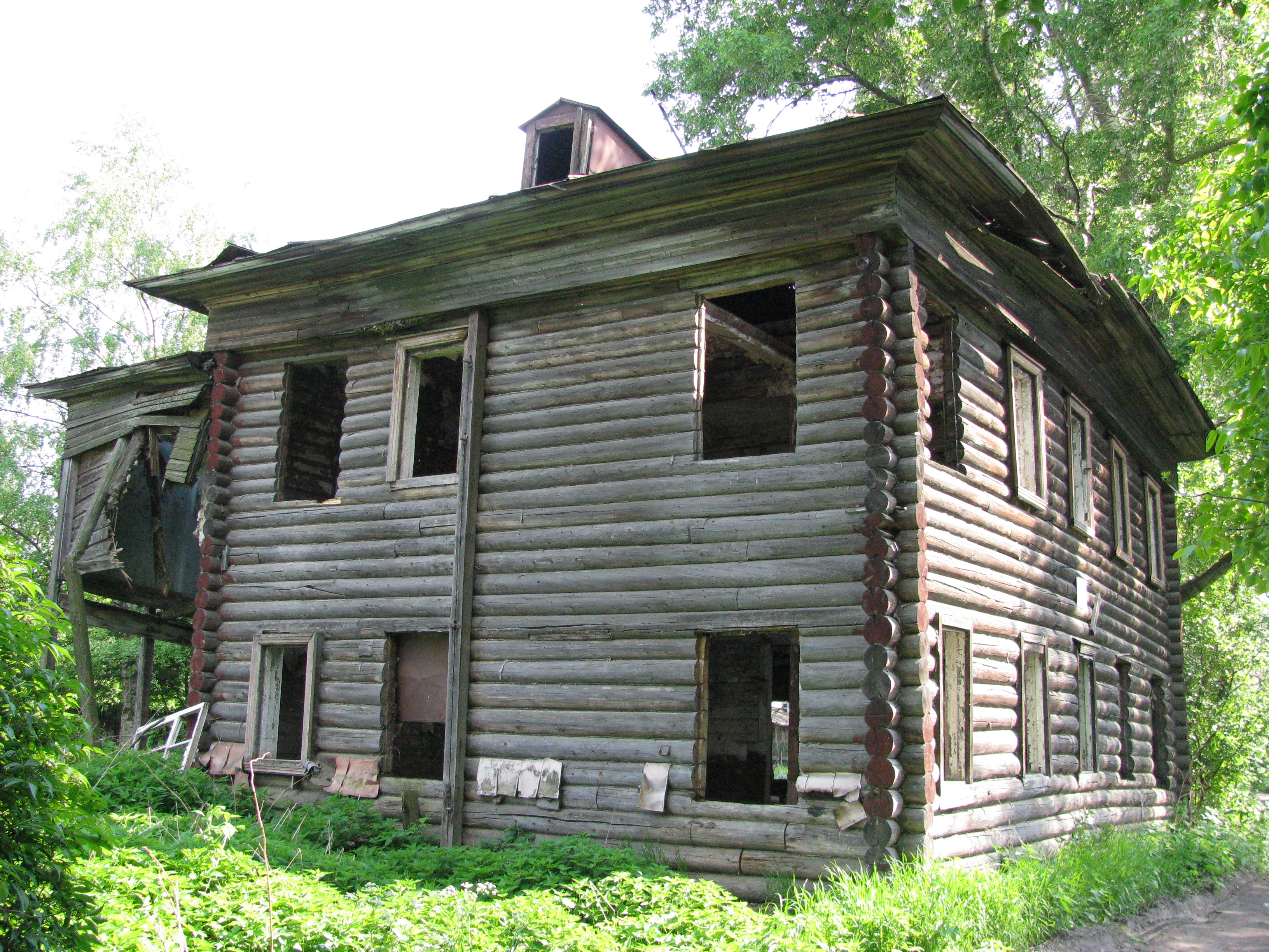 Wooden house near Gorny monastery in Vologda